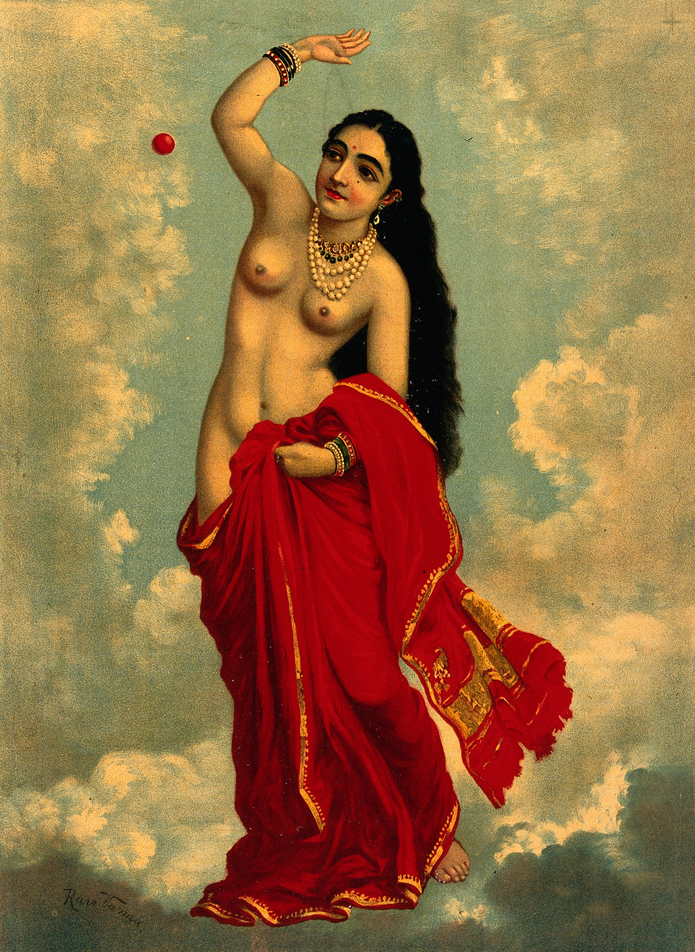 Half-clothed Tilottama flying in the sky playing with a red ball.